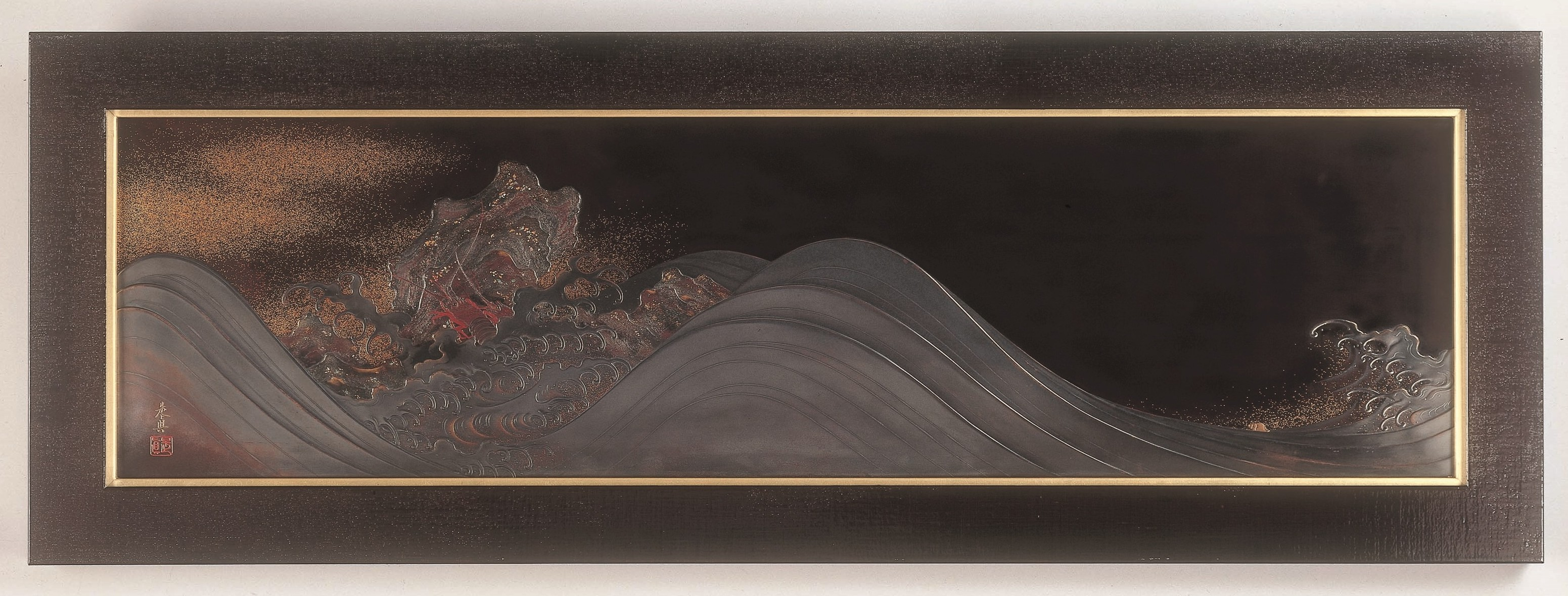 ‘Waves’ Panel, Japan, 1888-1890. From the Nasser D. Khalili Collection of Japanese Art of the Meiji Period. Described at